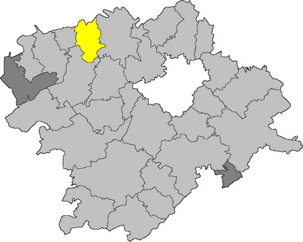 A Map of Issigau in Landkreis Hof, Bayern, Germany.